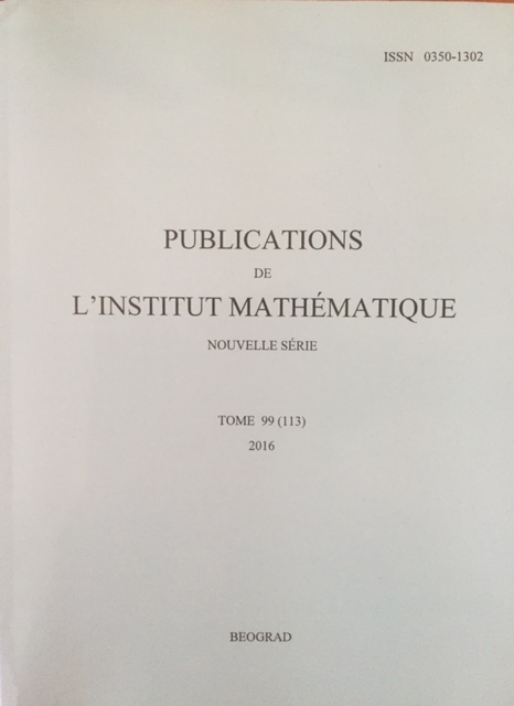 Насловна страна часописа